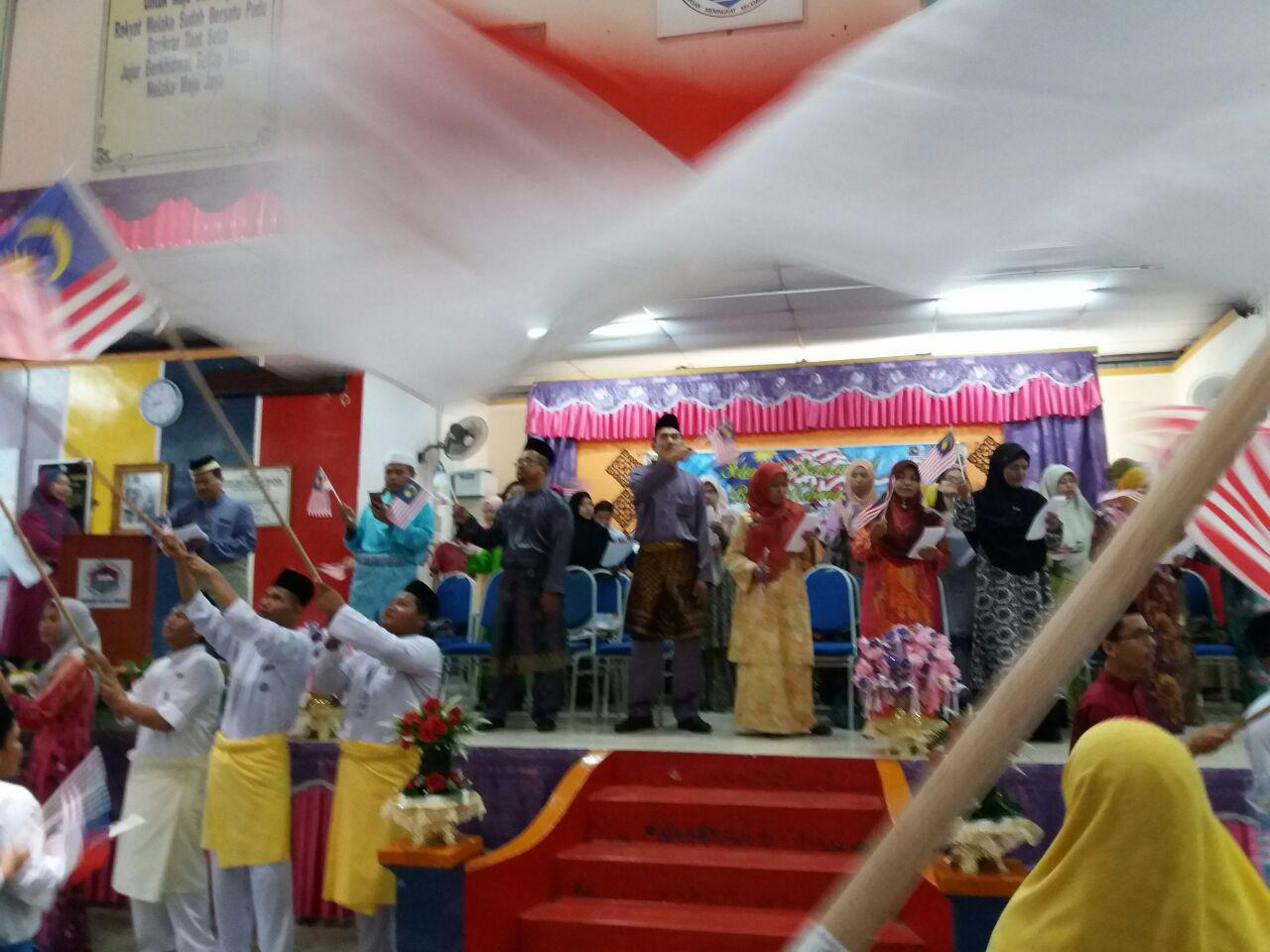 Pelancaran Merdeka 1